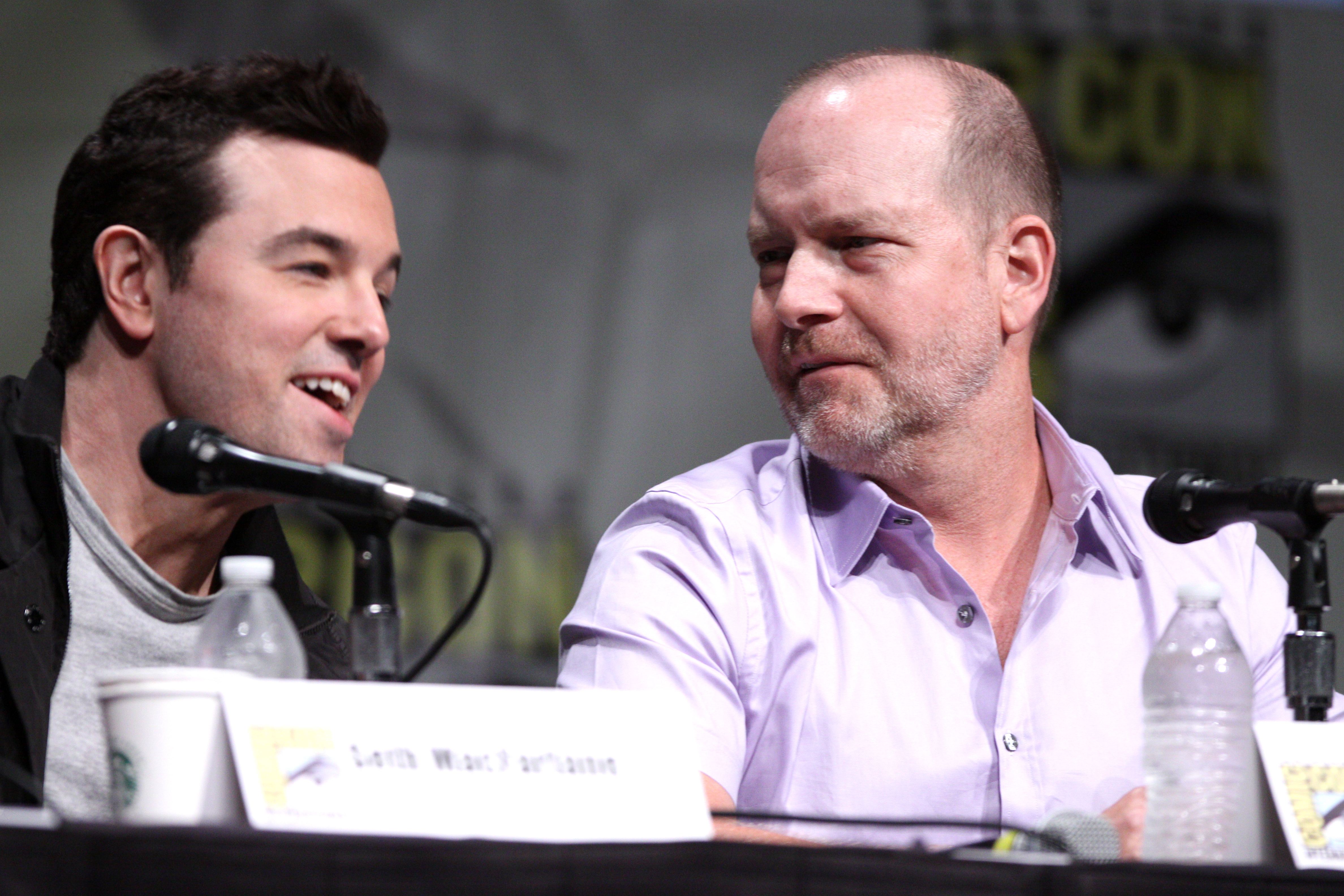 Seth MacFarlane & Mike Henry speaking at the 2012 San Diego Comic-Con International in San Diego, California.